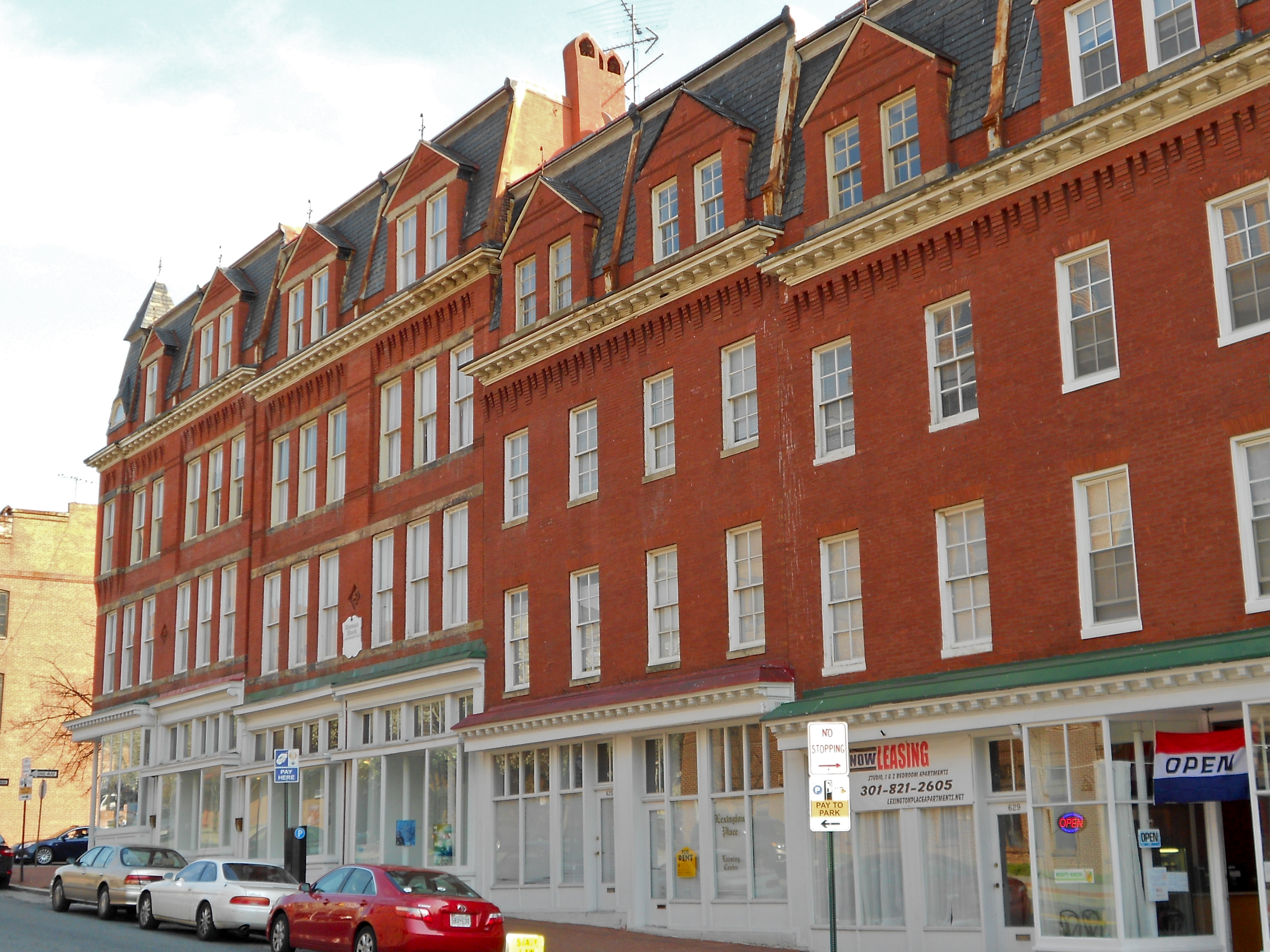 Rieman Block on the NRHP since June 7, 1984. At 617-631 W. Lexington St. in central Baltimore, Maryland.